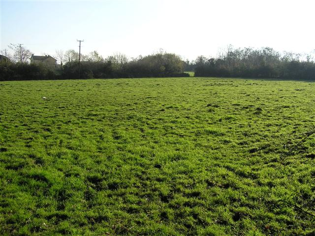 Tullylig Townland Green fields.